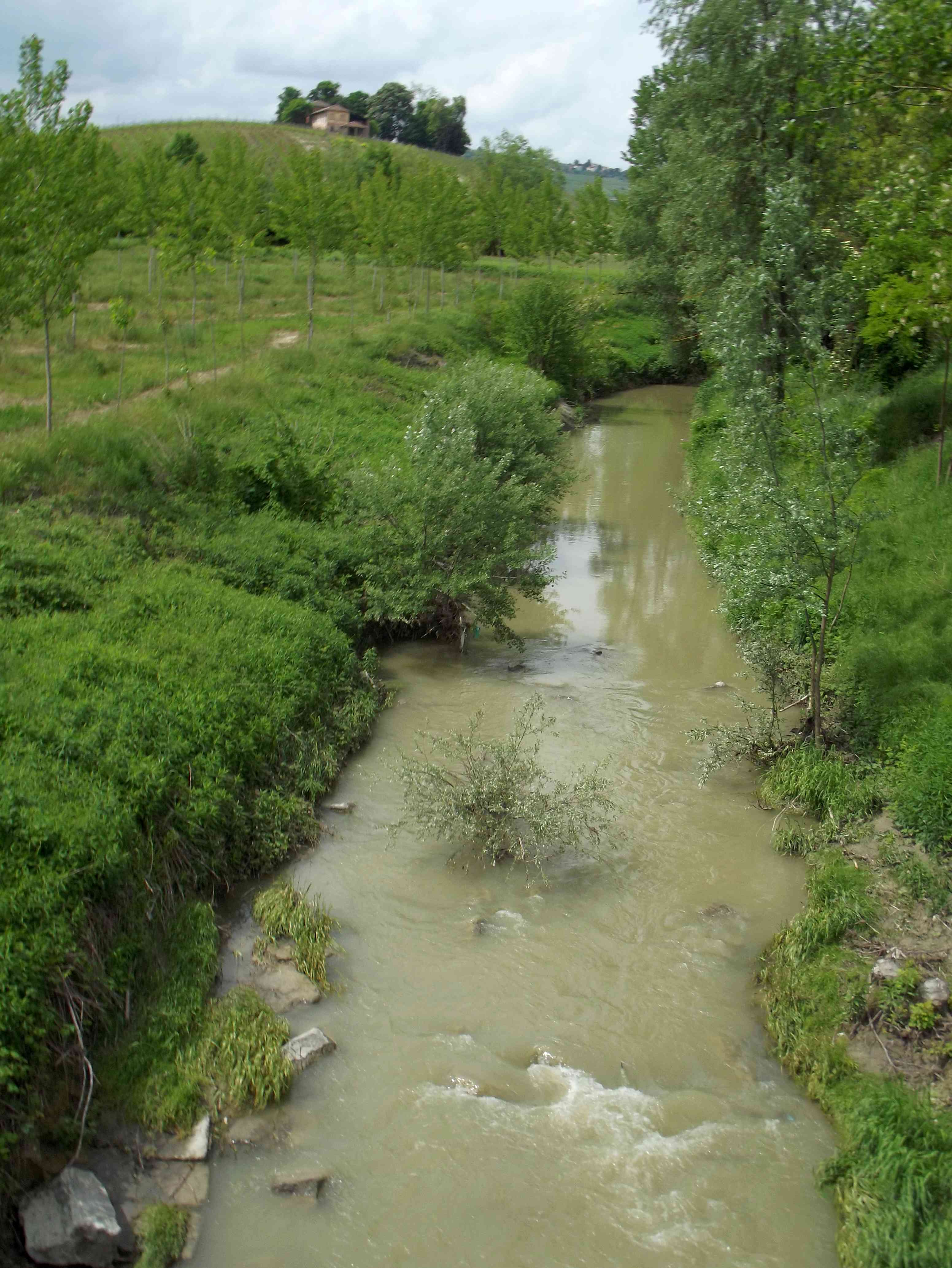 The Tinella near Calosso (AT, Italy)